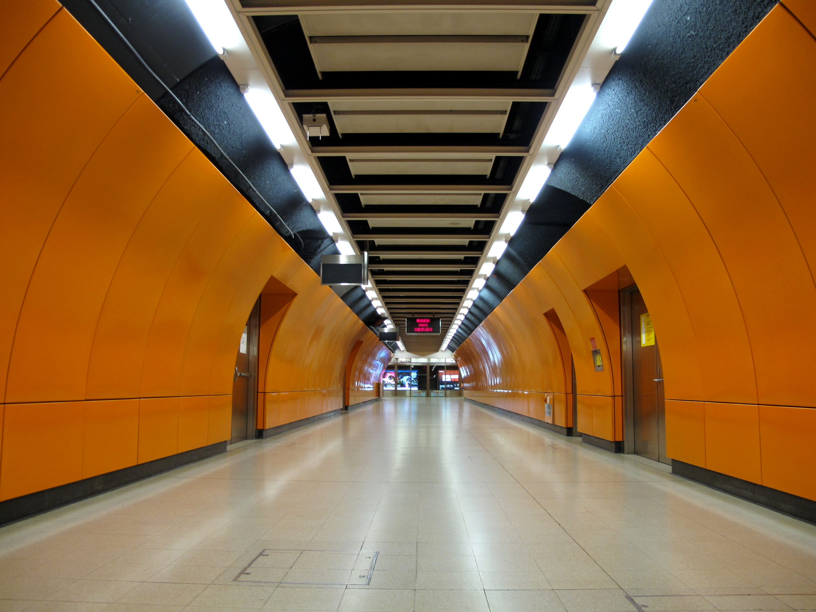 North Point Station 北角站